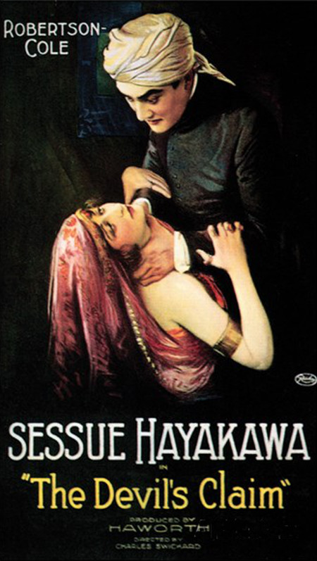 Small resolution image of The Devil's Claim poster, replace with higher res when available